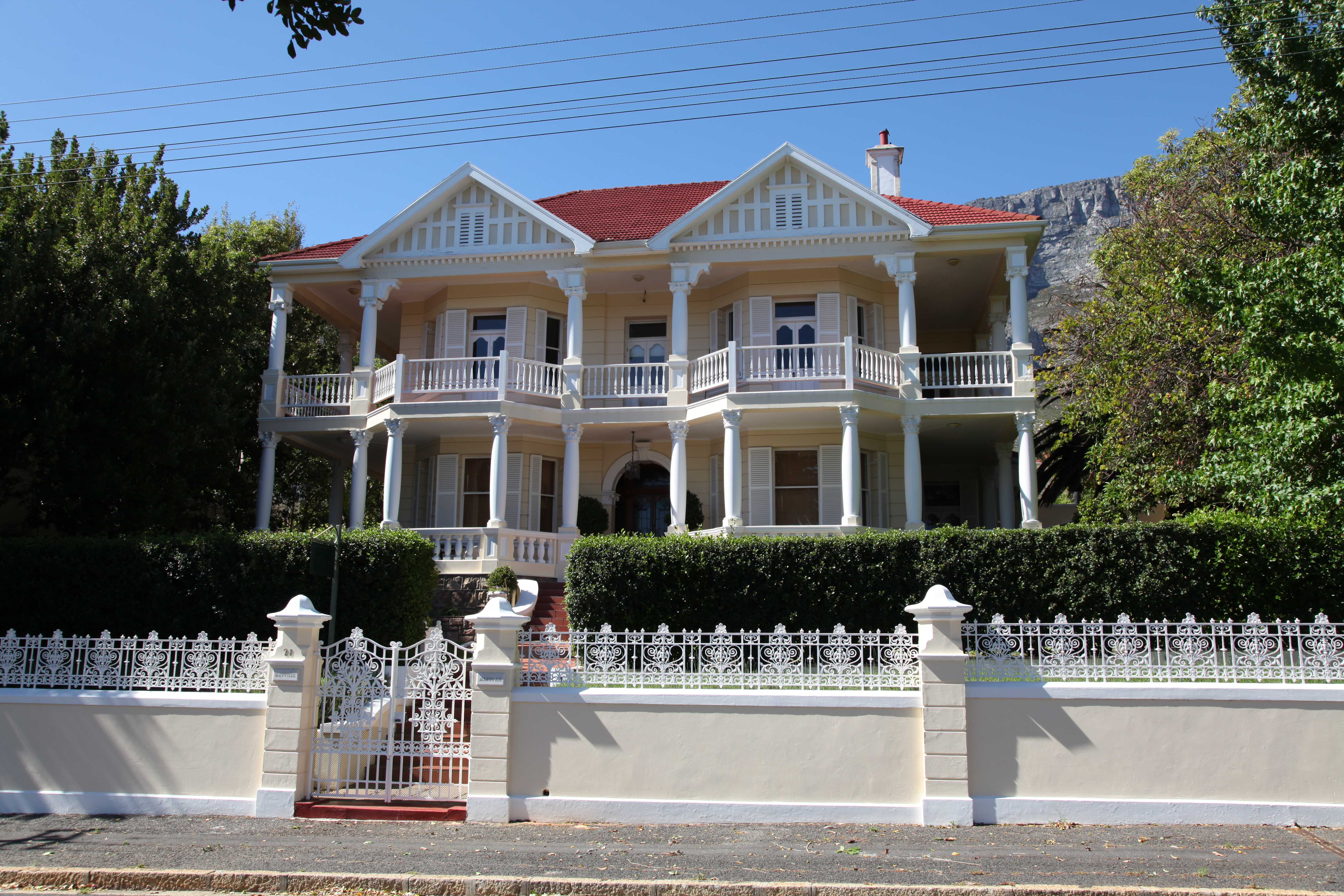 Mayville, at 21 Belvedere Avenue, Oranjezicht, Cape Town, is a villa built around 1900. This is one of the finest such villas built around that time, and one of the finest in the city.